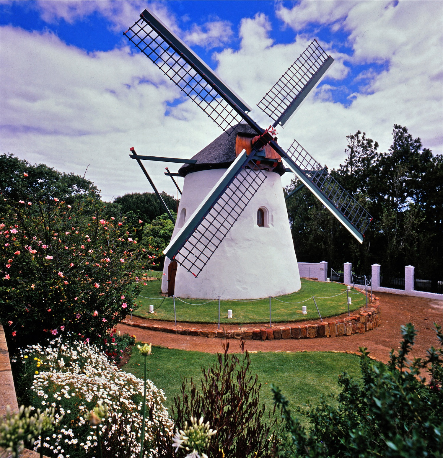 This media shows a South African Protected Site with SAHRA file reference 9/2/111/0064/004.